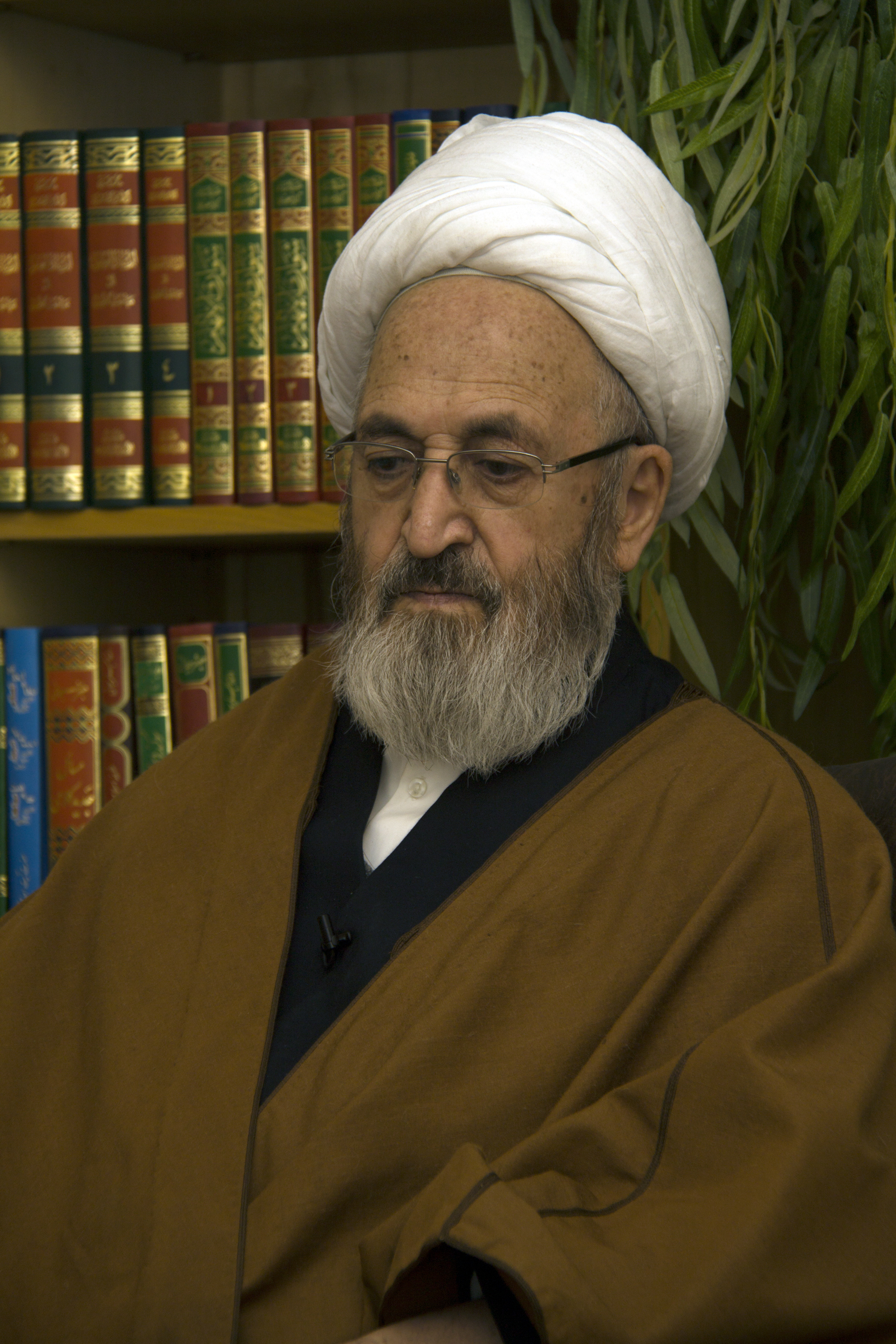 Ayatollah Ja'far Sobhani was born in Tabriz on 8 April 1929. Ja'far Sobhani is an Iranian Twelver shia marja, influential theologian and writer. Also, Sobhani was a former member of the Society of Seminary Teachers of Qom and founder of Imam Sadiq Institute in Qom. تۆرکجه: آیت‌الله شیخ جعفر سبحانی، آیت الله العظمی سبحانی خیابانی تبریزی-ه آدلیملانمیش (۱۳۰۸ گونش ایلی‌نین فروردینین ۲۰ سی تبریزده) متکلم، فقیه، اصولچو، مفسر، شیعی مجتهد و تقلید مرجع‌لریندن و قومون علمیه حوزه‌سی‌نین اوستادلاریندان‌دیر.